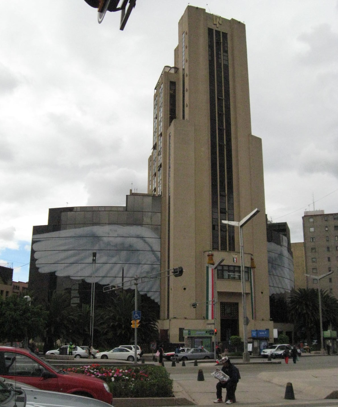 National Lottery building located on Paseo de la Reforma in Mexico City